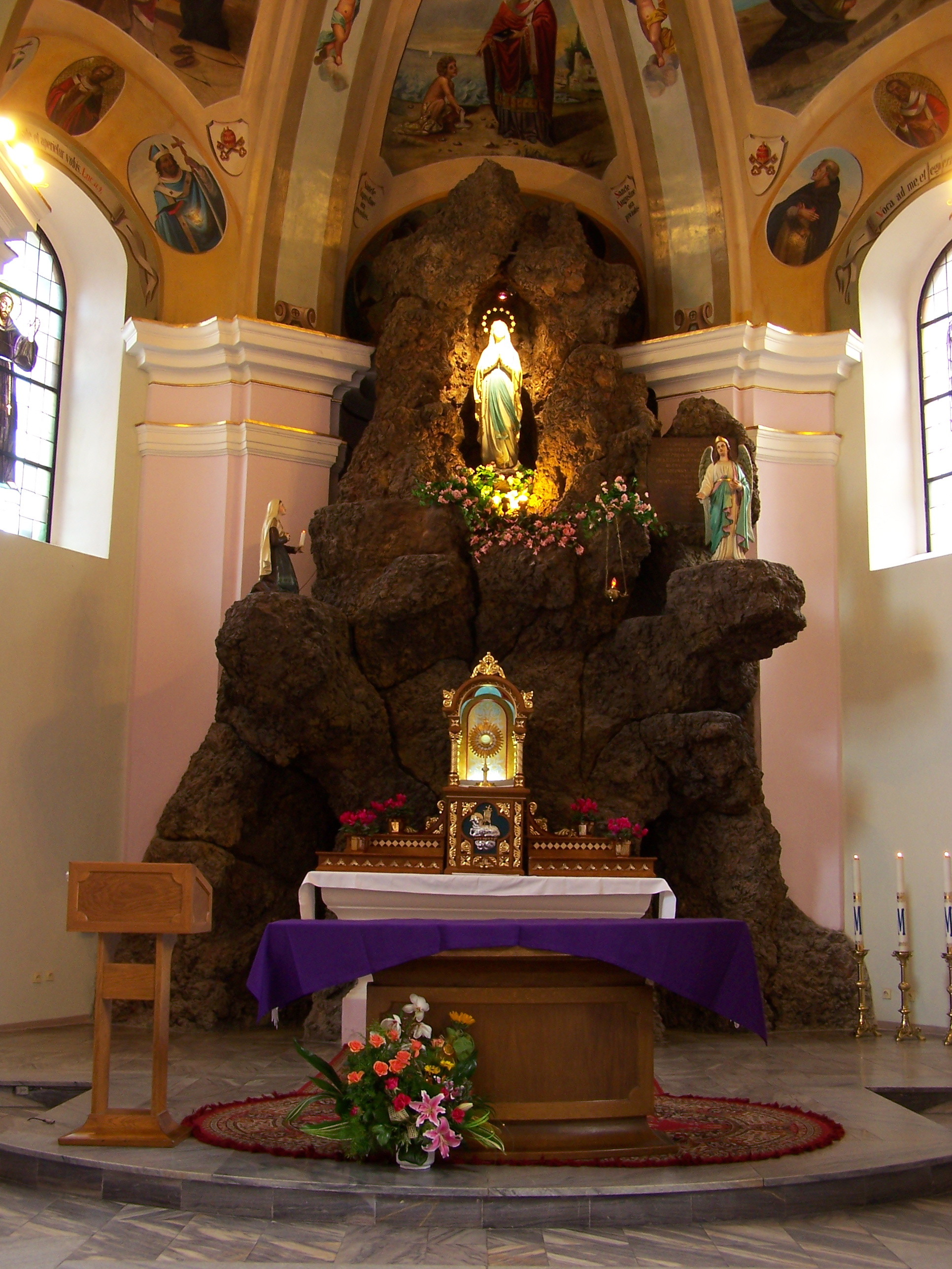 Altar in church of Our Lady of Lourdes in Kochłowice, district of Ruda Śląska (Poland).